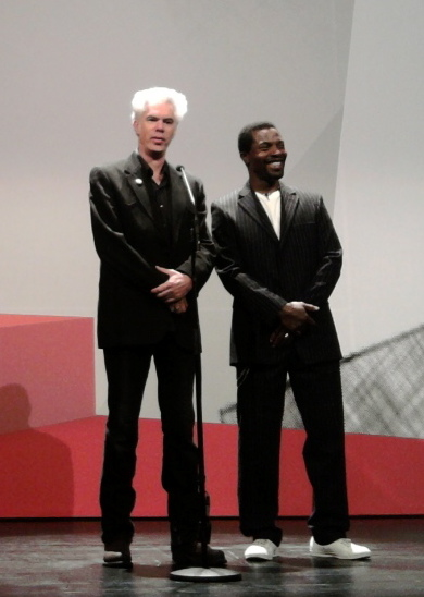 Director Jim Jarmusch and actor Isaach de Bankolé promote their film The Limits of Control at the San Sebastian International Film Festival on September 22, 2009.